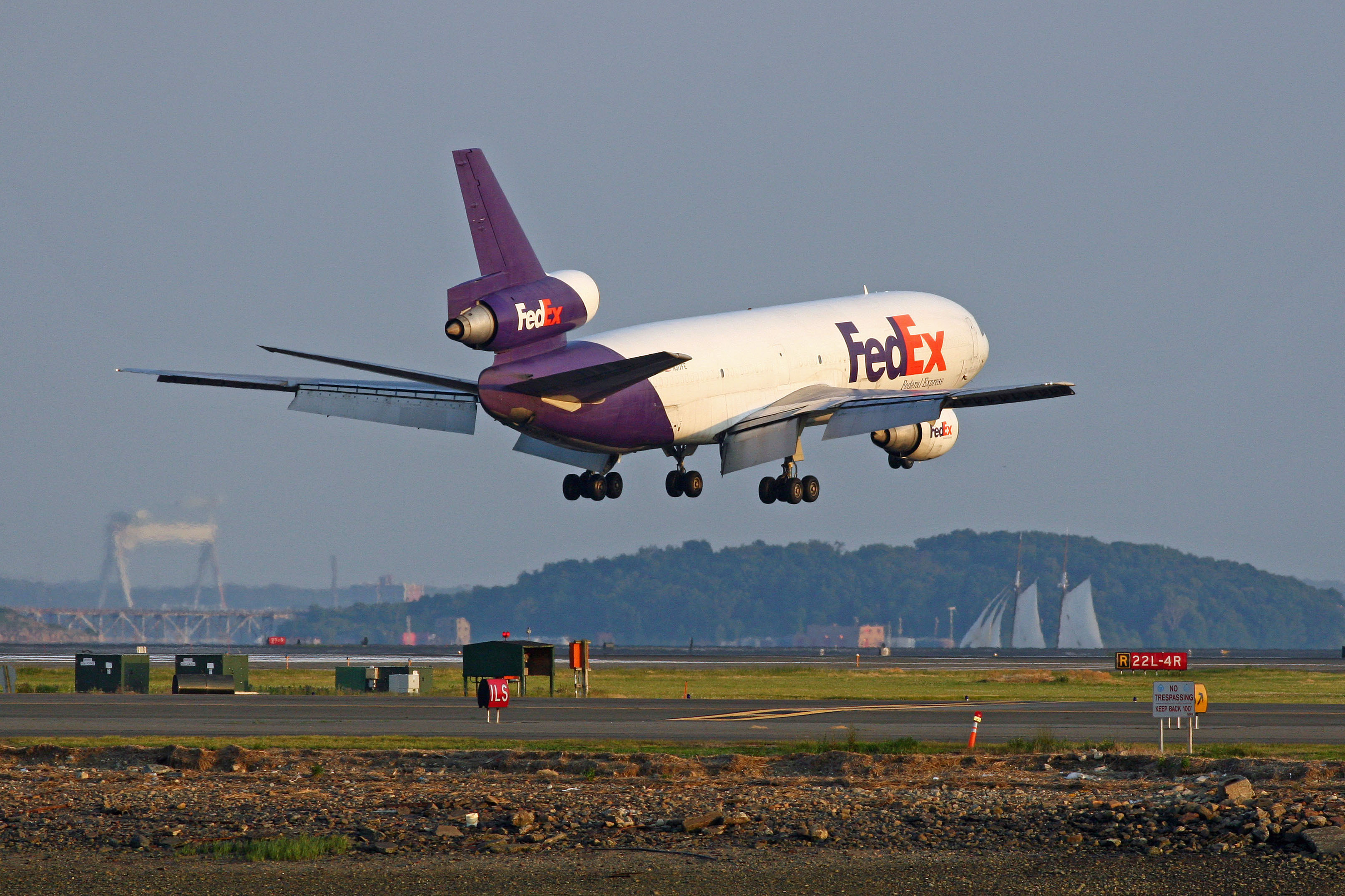 FedEx DC-10 landing at Logan International Airport, Boston Massachusetts USA